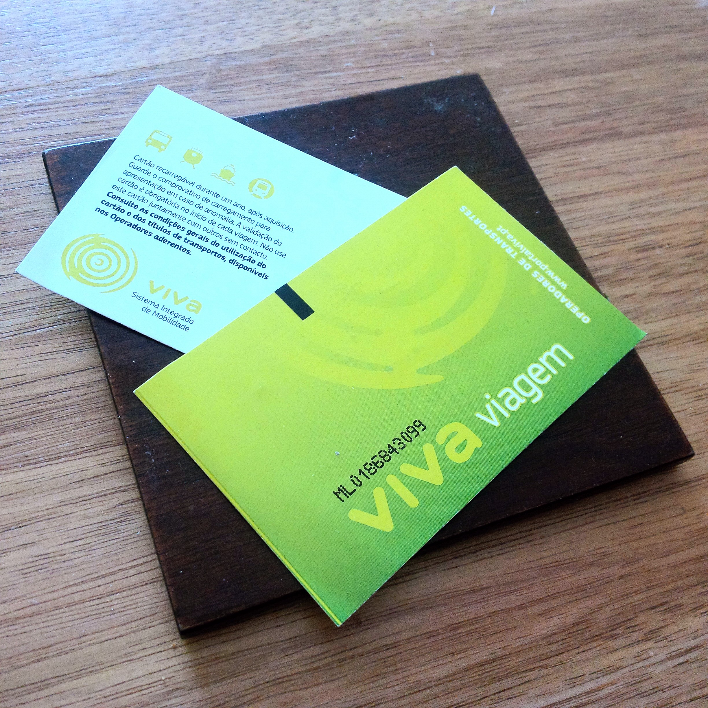 Viva Viagem contactless cards for Lisbon metro / underground (2014)